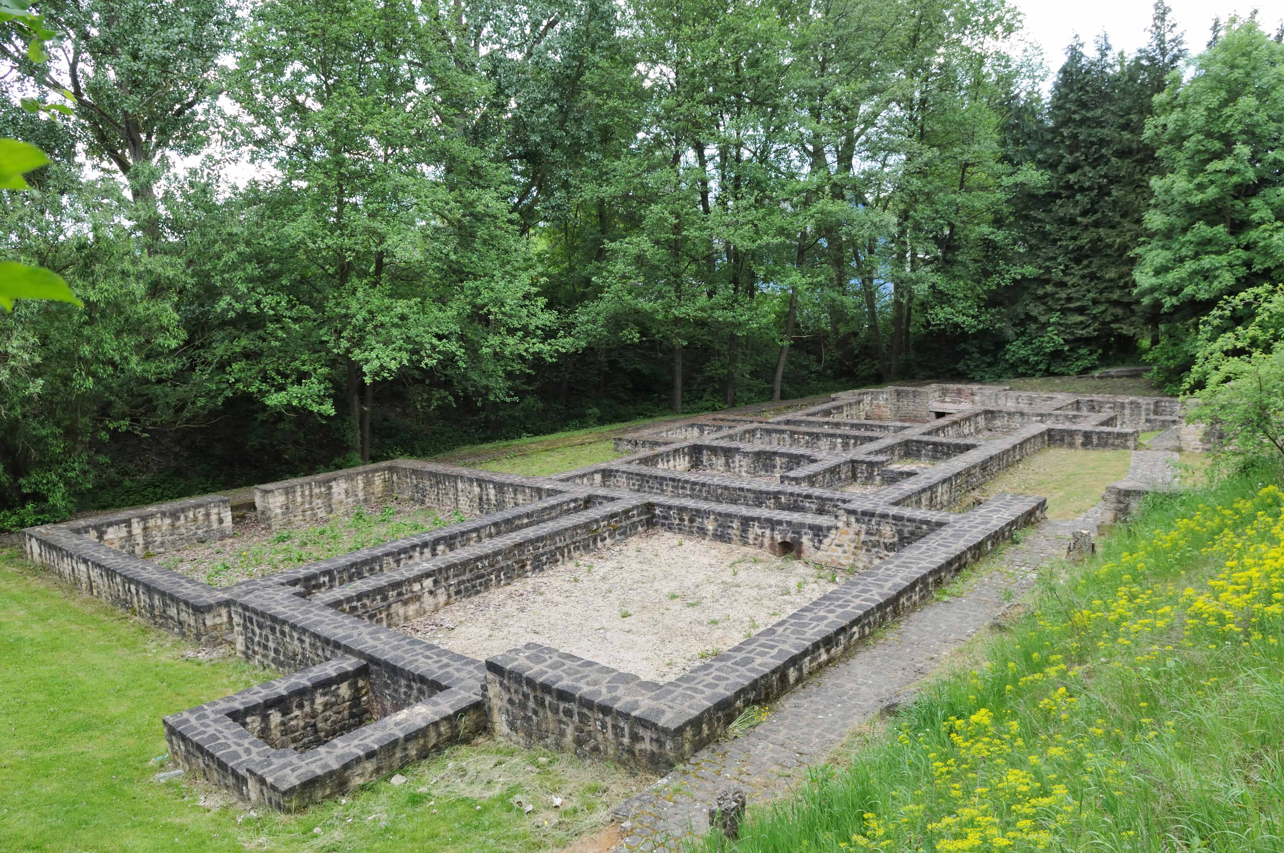 Roman public baths at Mamer, Luxembourg Auteur: Cayambe Source: Own work License: GFDL